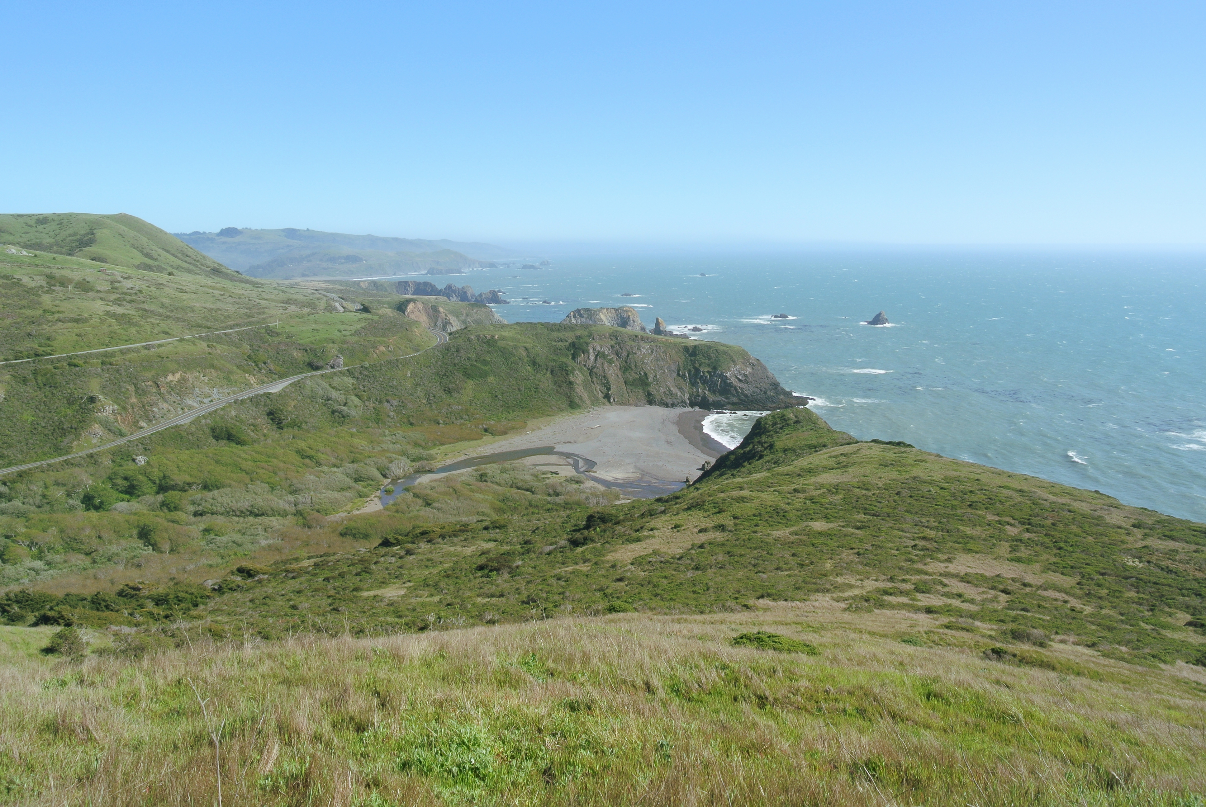 North coast of California and California State Route 1 north of Jenner. Nikon 1 V1 + 1 Nikkor VR 10-30mm f/3.5-5.6